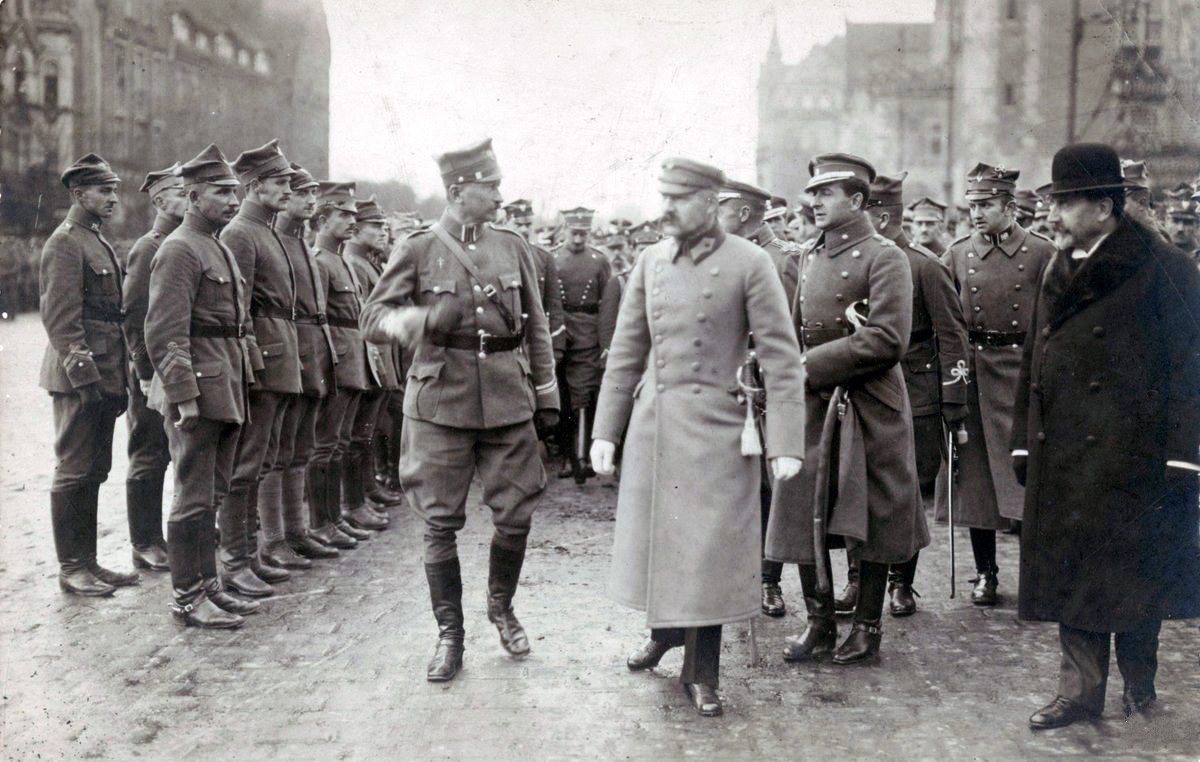 Józef Piłsudski during his visit in Poznan 27.10.1919. From the left: Józef Dowbor-Muśnicki, Józef Piłsudski, Bolesław Wieniawa-Długoszowski, Władysław Seyda